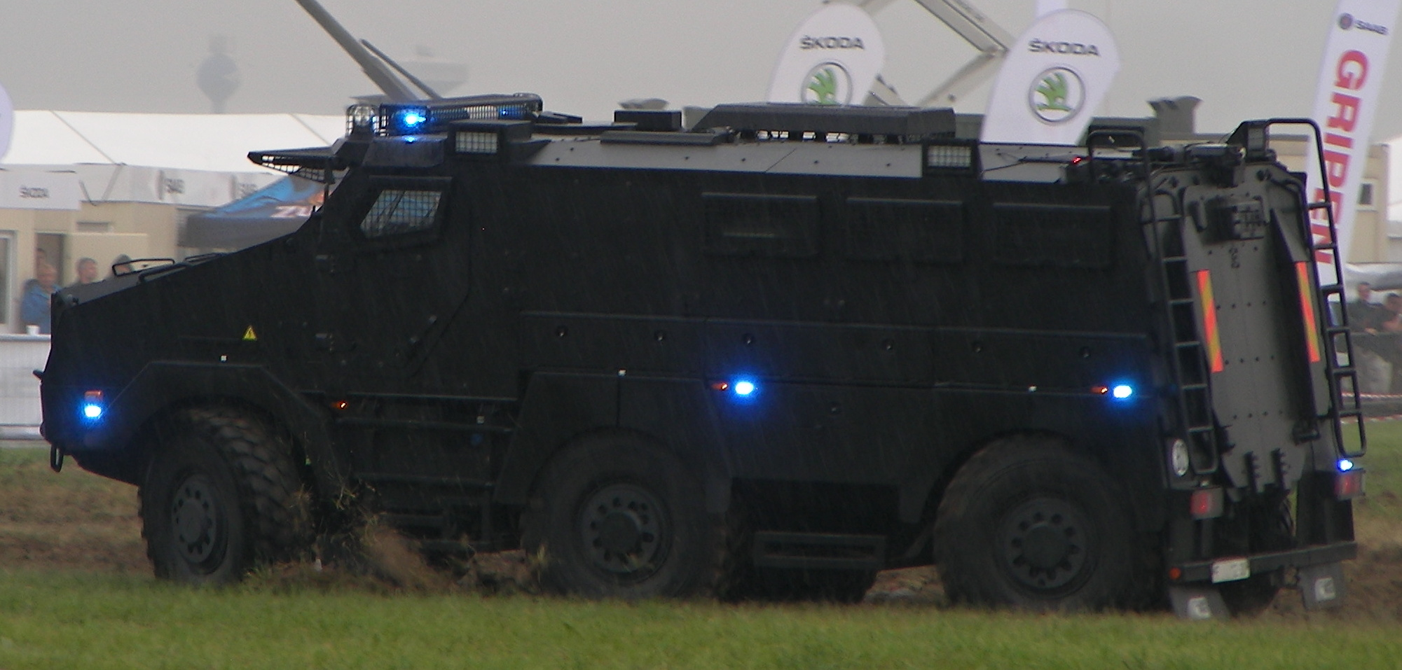 French police's TITUS by NEXTER on TATRA chassis, NATO Days 2016, Ostrava Airport, Czech Republic